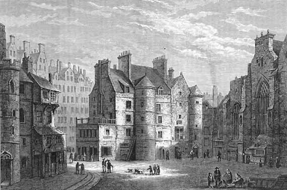 An engraving based on an eighteenth century painting by Alexander Naysmith (9 September 1758–10 April 1840)